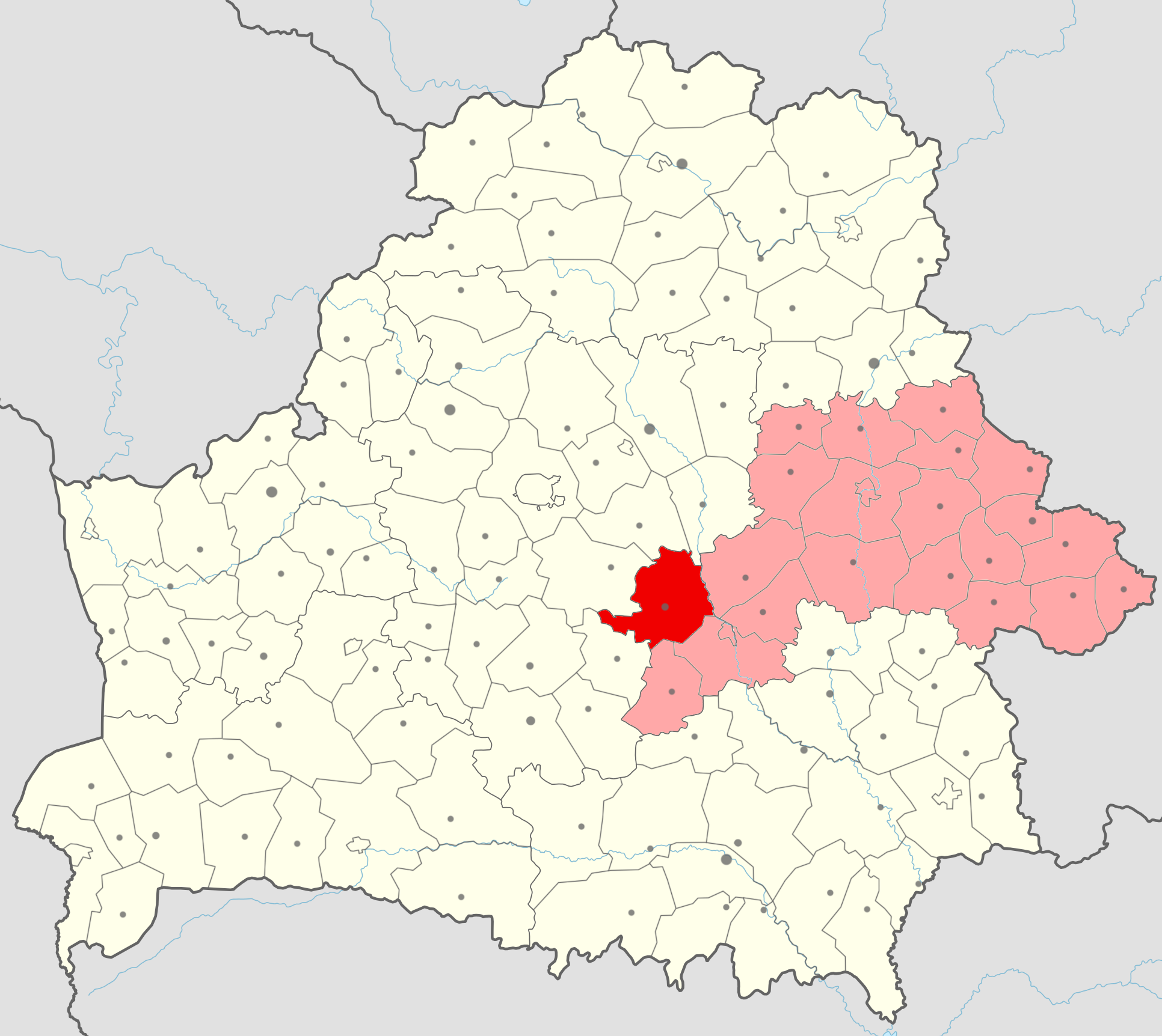 Location of Asipovicki rajon (red) in Mahilioŭskaja voblasć (light red) in Belarus.